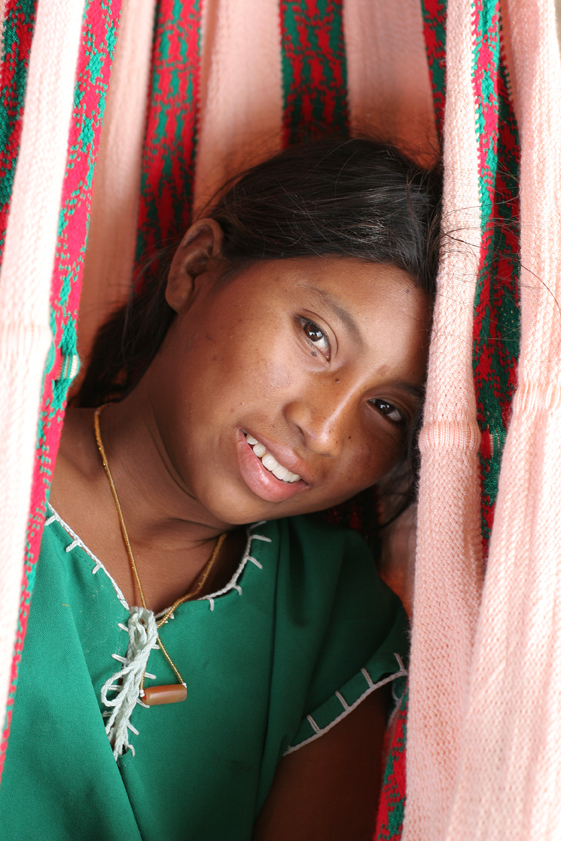 Woman pertaining to the Wayuu people